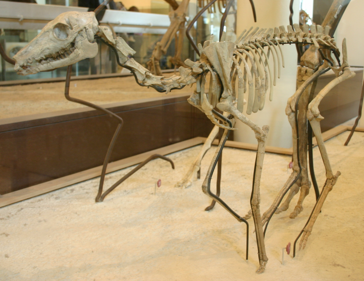 Poebrotherium labratum specimen